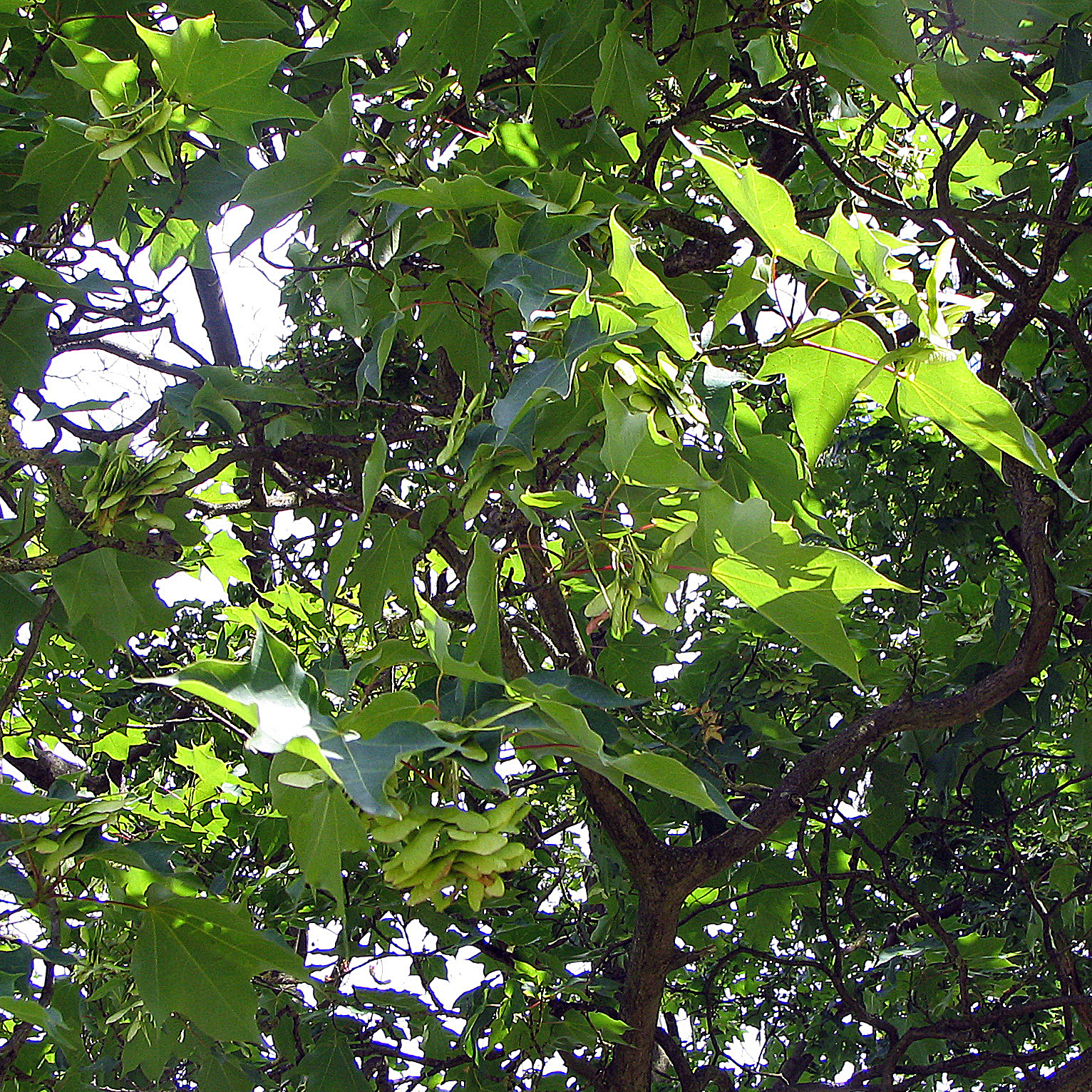 Acer cappadocicum leaves and fruits Trentham